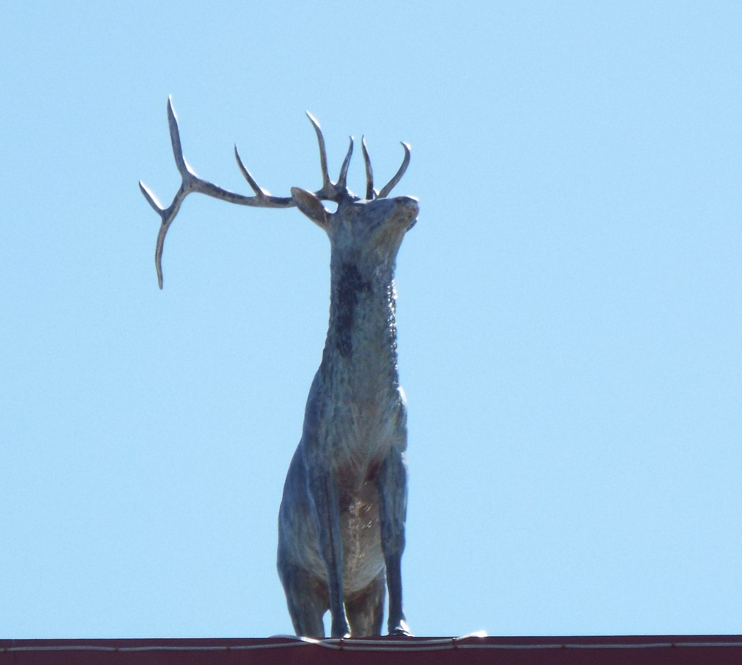 Elk on the roof of the Elks Theater and lodge built in 1904